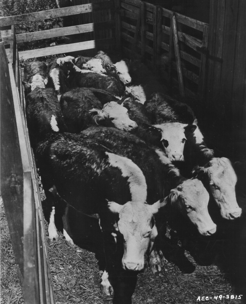 TRINITY PHOTOGRAPH - Alamogordo, NM - Trinity test - Range cattle inadvertently exposed to radioactive dust in first atomic bomb explosion in New Mexico in 1945. The cattle are to be studied along with their offspring for possible effects.